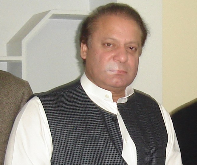 Nawaz Sharif meets envoy